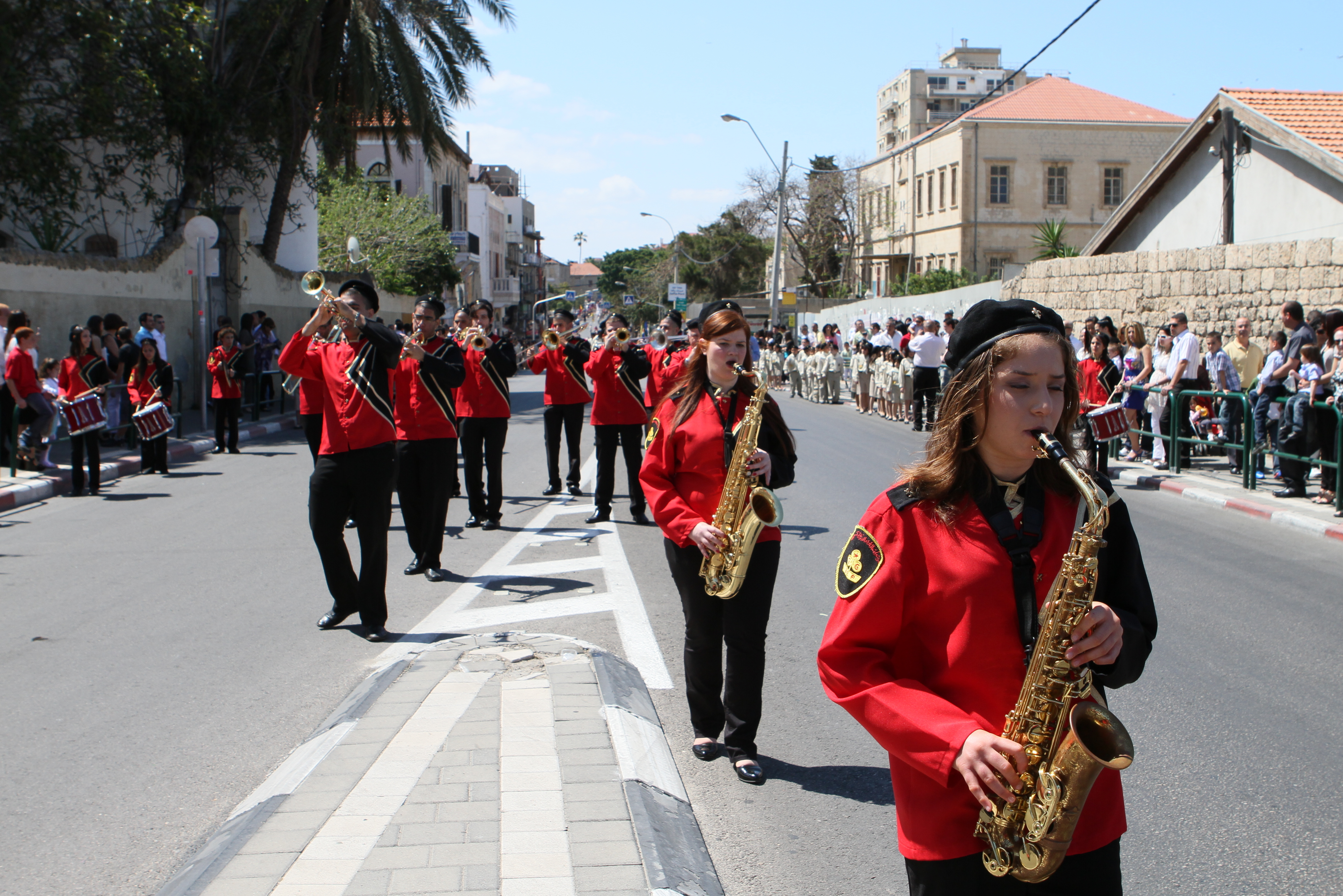 Monday Easter 2011 Scouts Cellebration in Jaffa